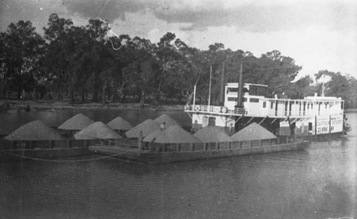 Four photos on one neg - G.P. Negative for largest photo on neg says "Lake Victoria Temporary Regulatory Rufus River July 1920". G.P. Negative for top photo on neg says "Stone Crushing Plant, Mannum".G.P. Negative for middle photo on neg says "P.S. Captain Sturt in course of erection". G.P. Negative for bottom photo (Captain Sturt) on neg says "Towing barges loaded with stone". (G Brooks)